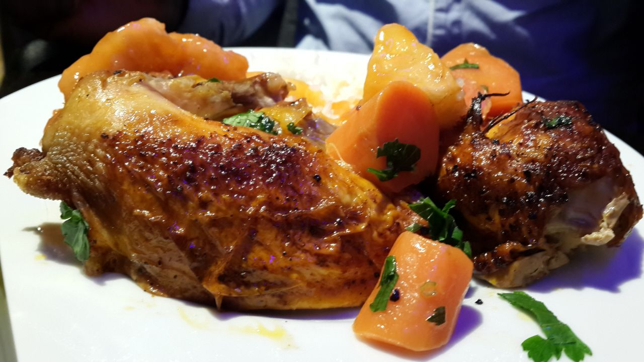 swmoked chicken and herbs This is an image of food from Nigeria